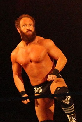 Picture I took of Eric Young at TNA Genesis 2014